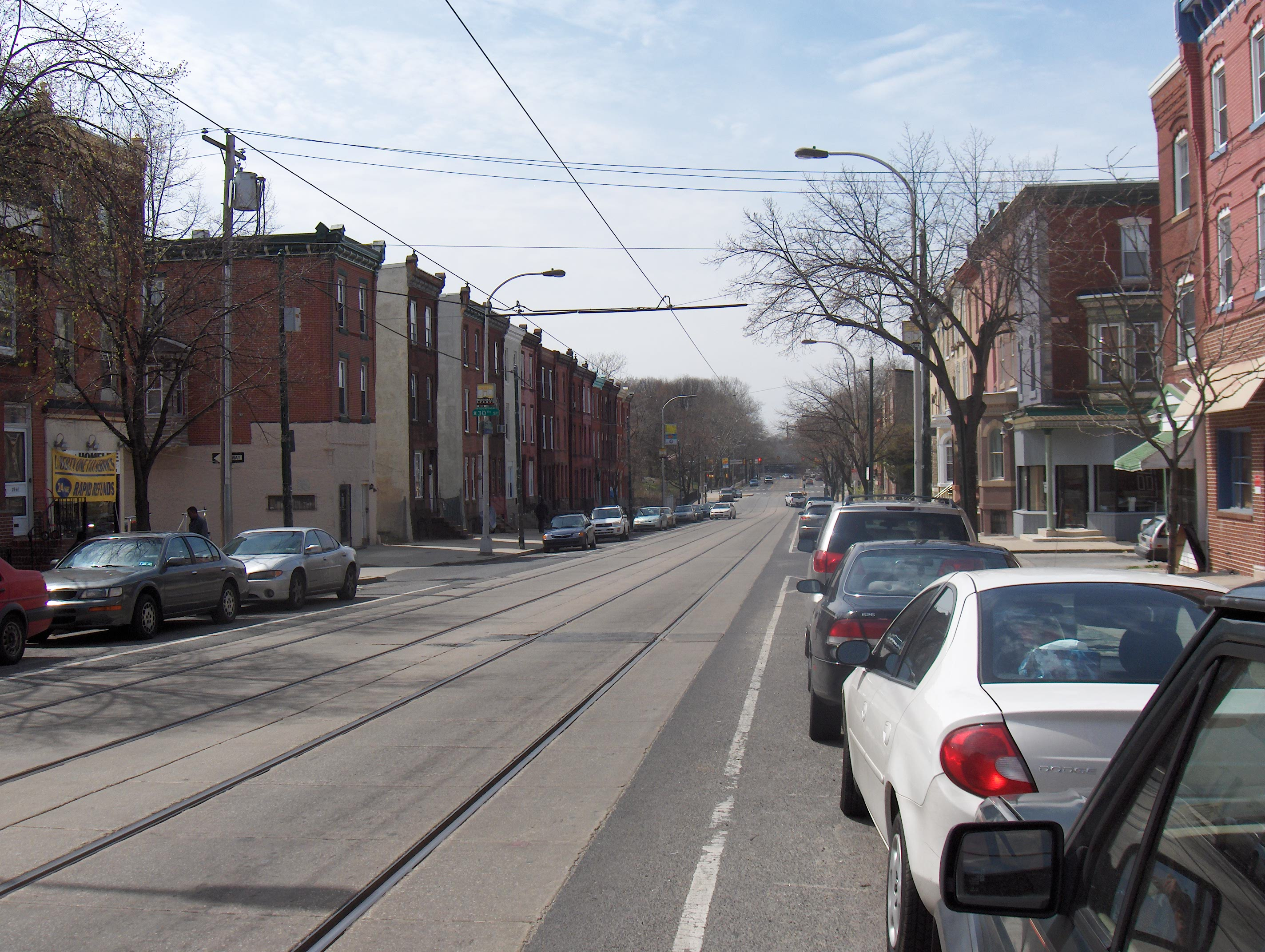 West Girard Avenue, Fairmount, Philadelphia, PA 19130, looking west, 2900 block